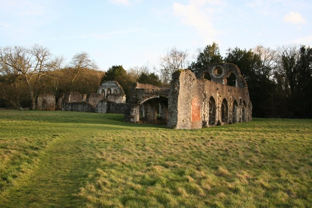 Waverley Abbey ruins